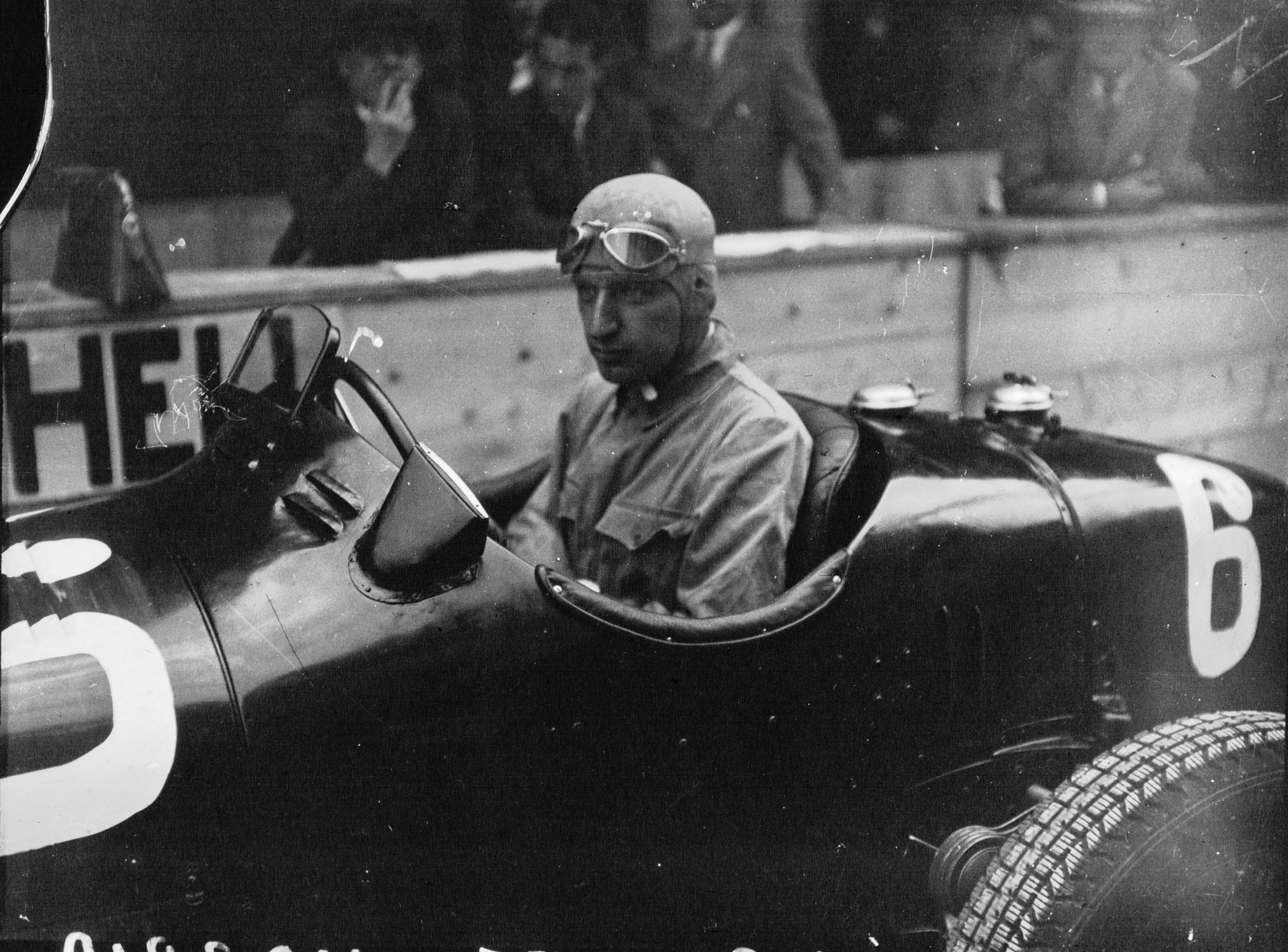 Carlo Felice Trossi at the 1934 Grand Prix automobile de Montreux with Scuderia Ferrari Alfa Romeo P3